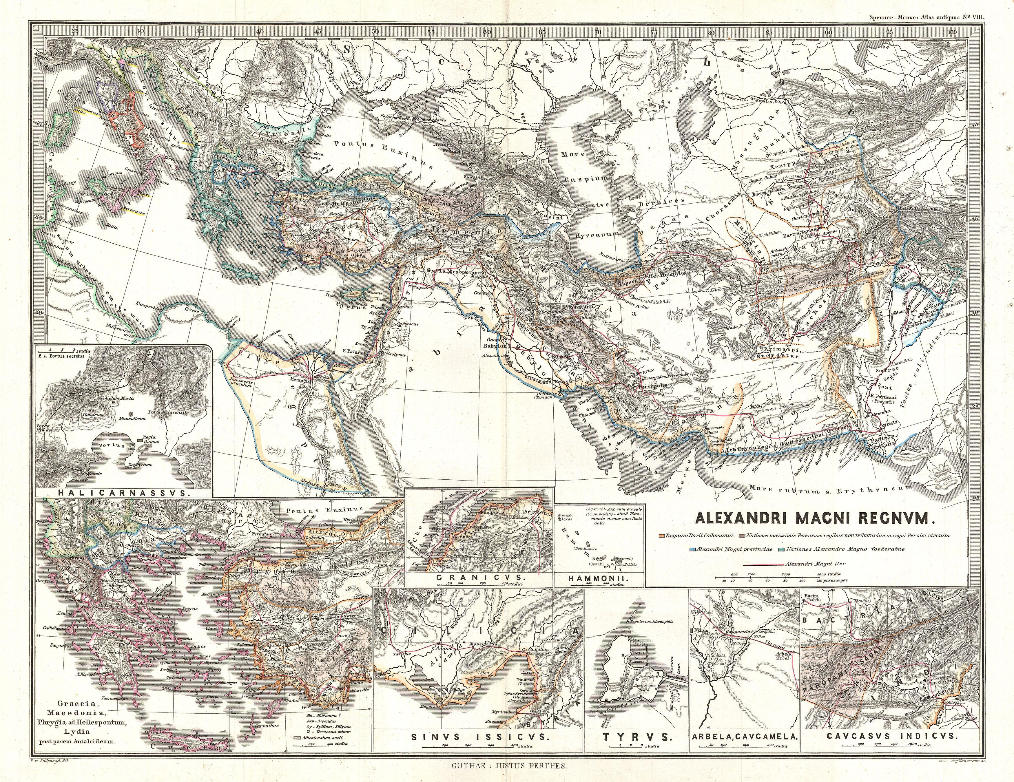 A fascinating 1854 historical map of the Empire of Alexander the Great. Shows Alexander's conquests at their fullest extent covering from Italy to the mouths of the Indus River and from the Black Sea to the Nile Valley. A series of insets in the lower quadrants of the map depict various sites associated with Alexander's most important battles, including Halicarnassus, Sinus Issicus, Cranicus, Hammonii, Tyrus (Tyre), Arbela, Gavcamela, and Caucasus Indicus. A further inset in the lower left quadrant details Greece, Macedonia, and the Aegean. The overall style of this map is typical of German cartographic work form the middle part of the 19th century. It is characterized by high quality woven papers, extremely fine steel plate engraving work, high levels of detail, and minimal but intense outline-style color work. Drawn by A. Hanemann and F. von Stulpnagel and published by Justus Perthes in Karl von Spruner's 1854 Hand Atlas .